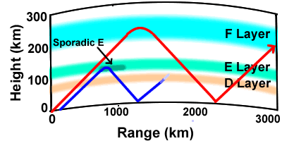 Ray diagram of sporadic E event. HF radio transmissions above the normal E layer MUF (red) pass through the E layer. During a sporadic E event, signals (blue) will either be refracted or partially refracted in the E layer, resulting in decreased long distance transmission, but better reception within the normal first skip zone.